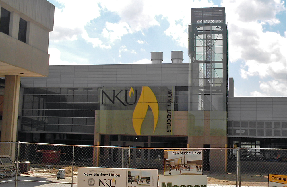 Student Union under construction in 2008 at Northern Kentucky University. It is completed and on line, housing food services, Starbucks, Edy's ice cream shop and many customary amenities for students and meeting areas and lounges.